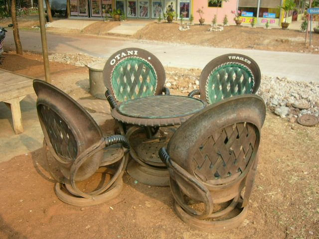 Old car tires as seats - not rare to see in Thailand.